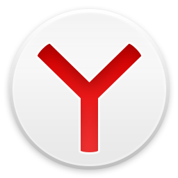 Yandex.Browser logo